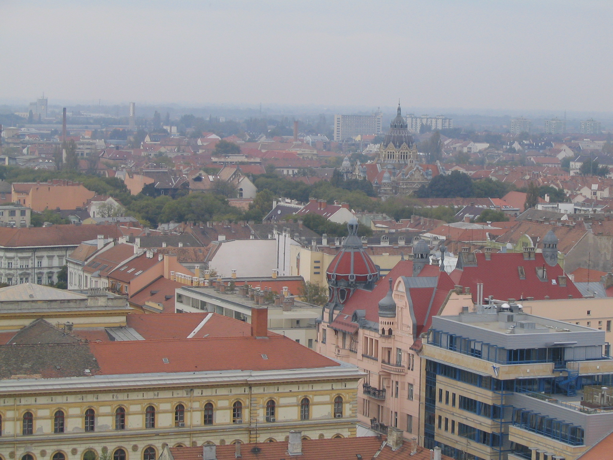 A view from the Dome's tower, Szeged, Hungary